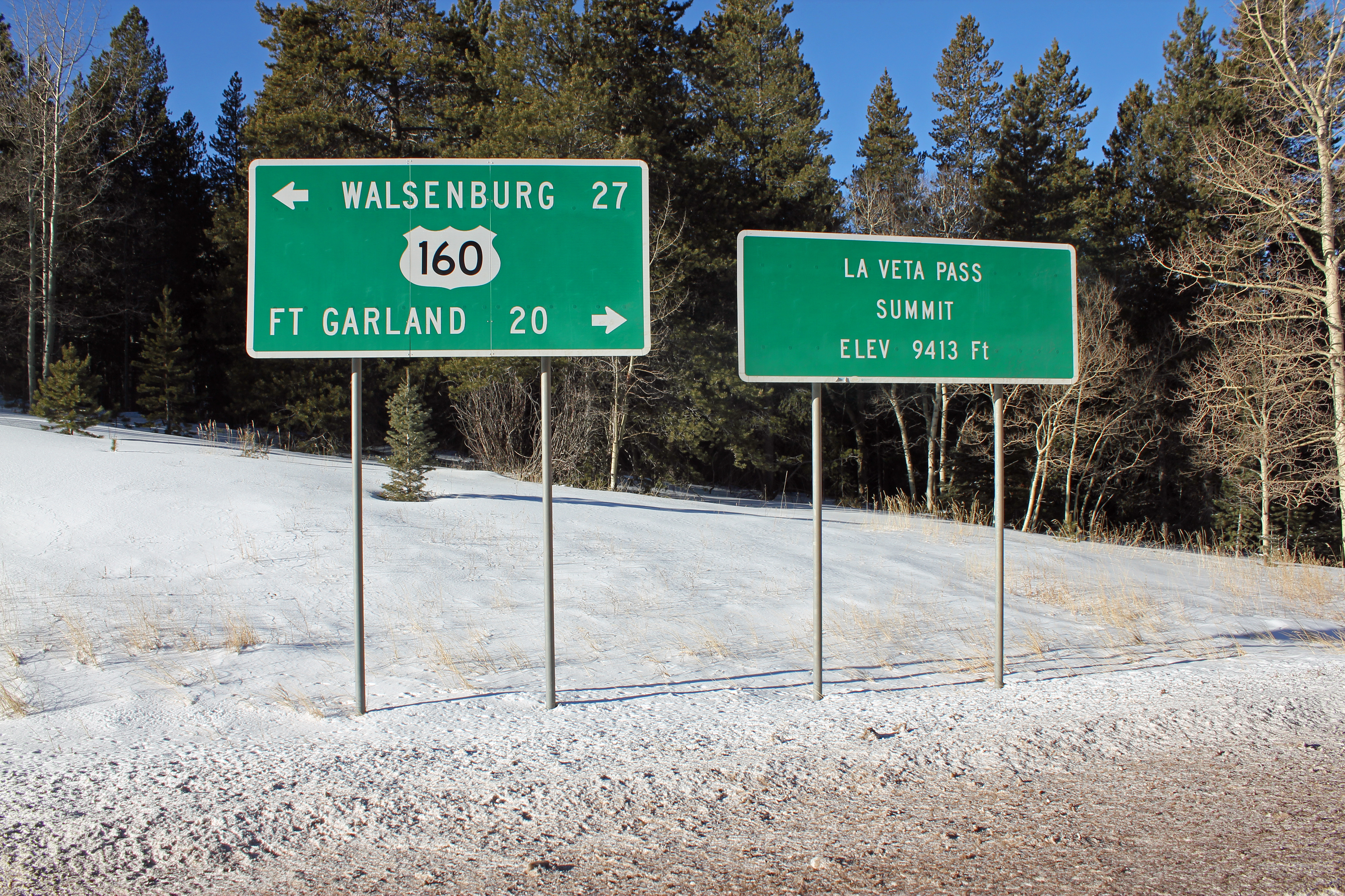 La Veta Pass on U.S. Route 160 in southern Colorado. The pass lies on the border between Huerfano County to the east and Costilla County to the west. The elevation is 9,413 feet. The two signs in the picture are parallel to the highway on the south side.